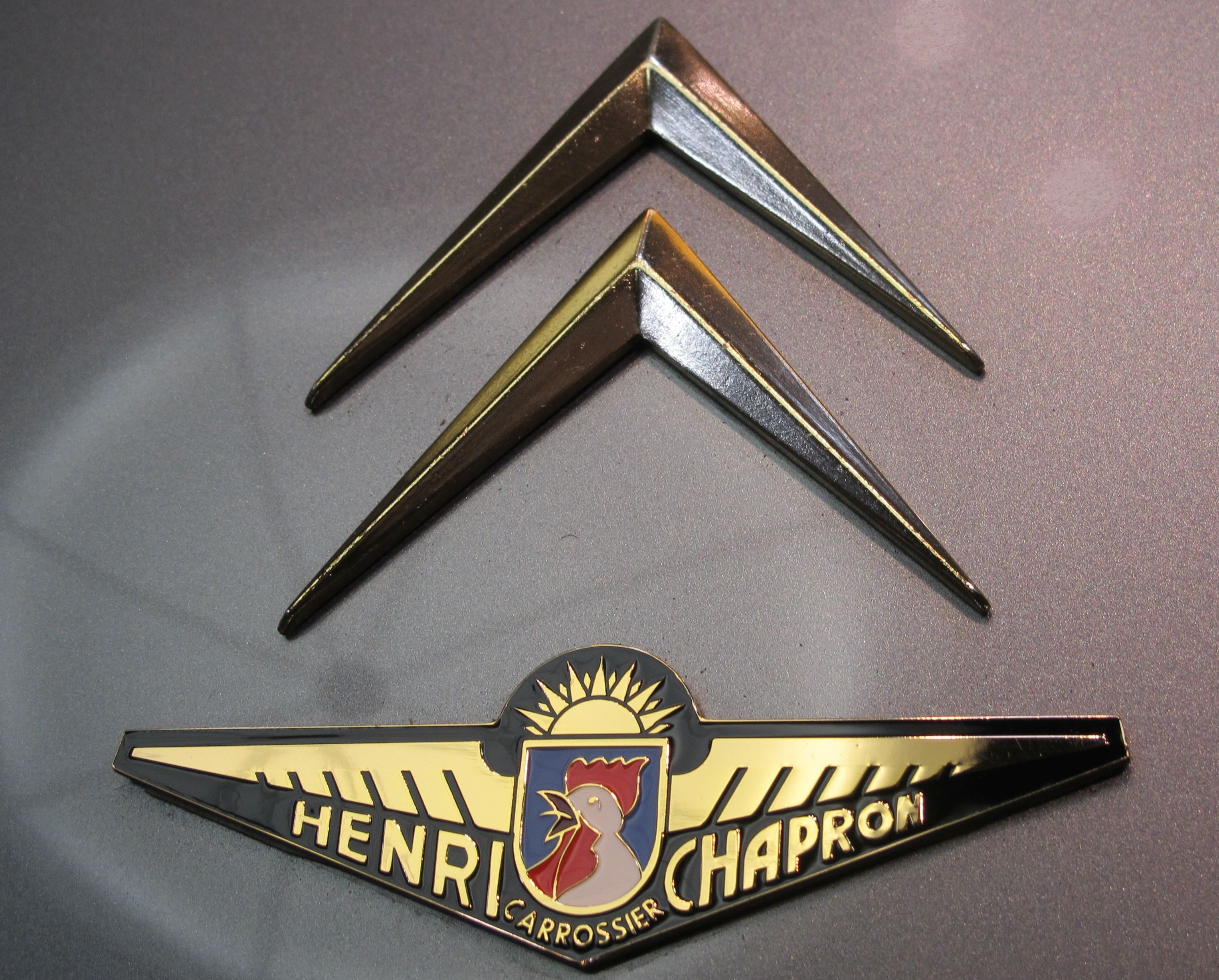 The Henri Chapron badge on a custom bodied Citroen car